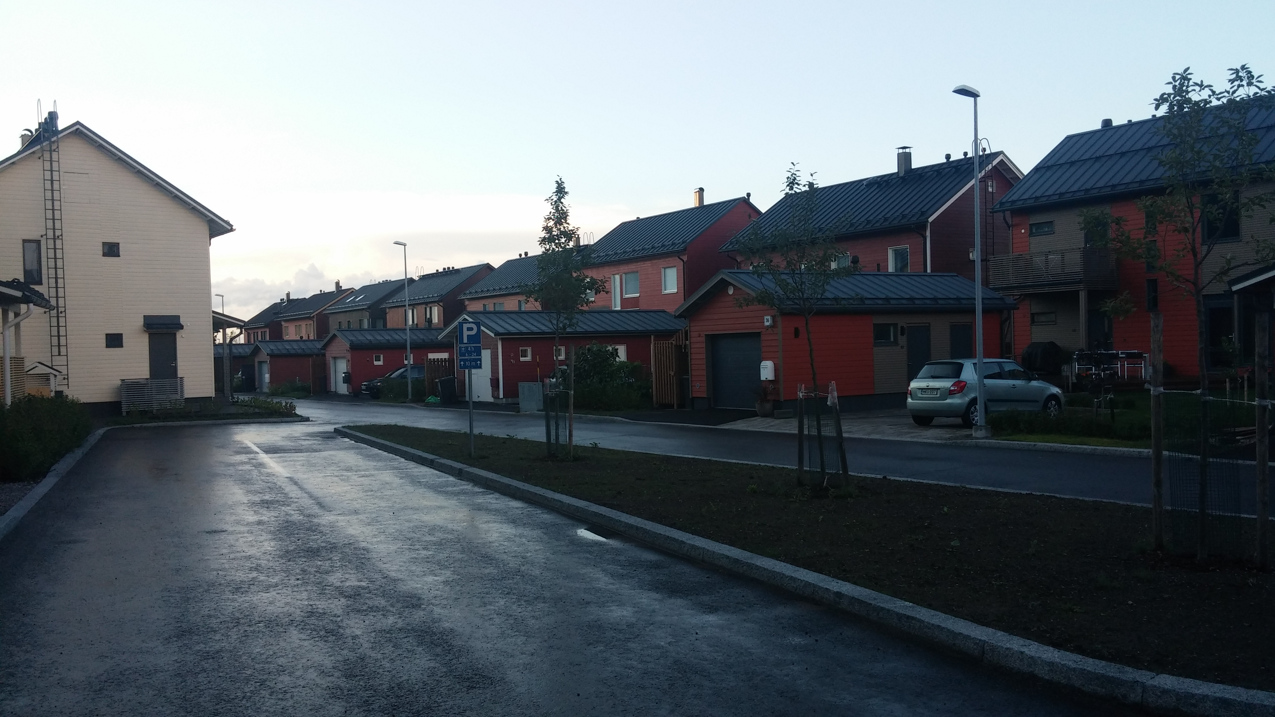 Helsinki-talo